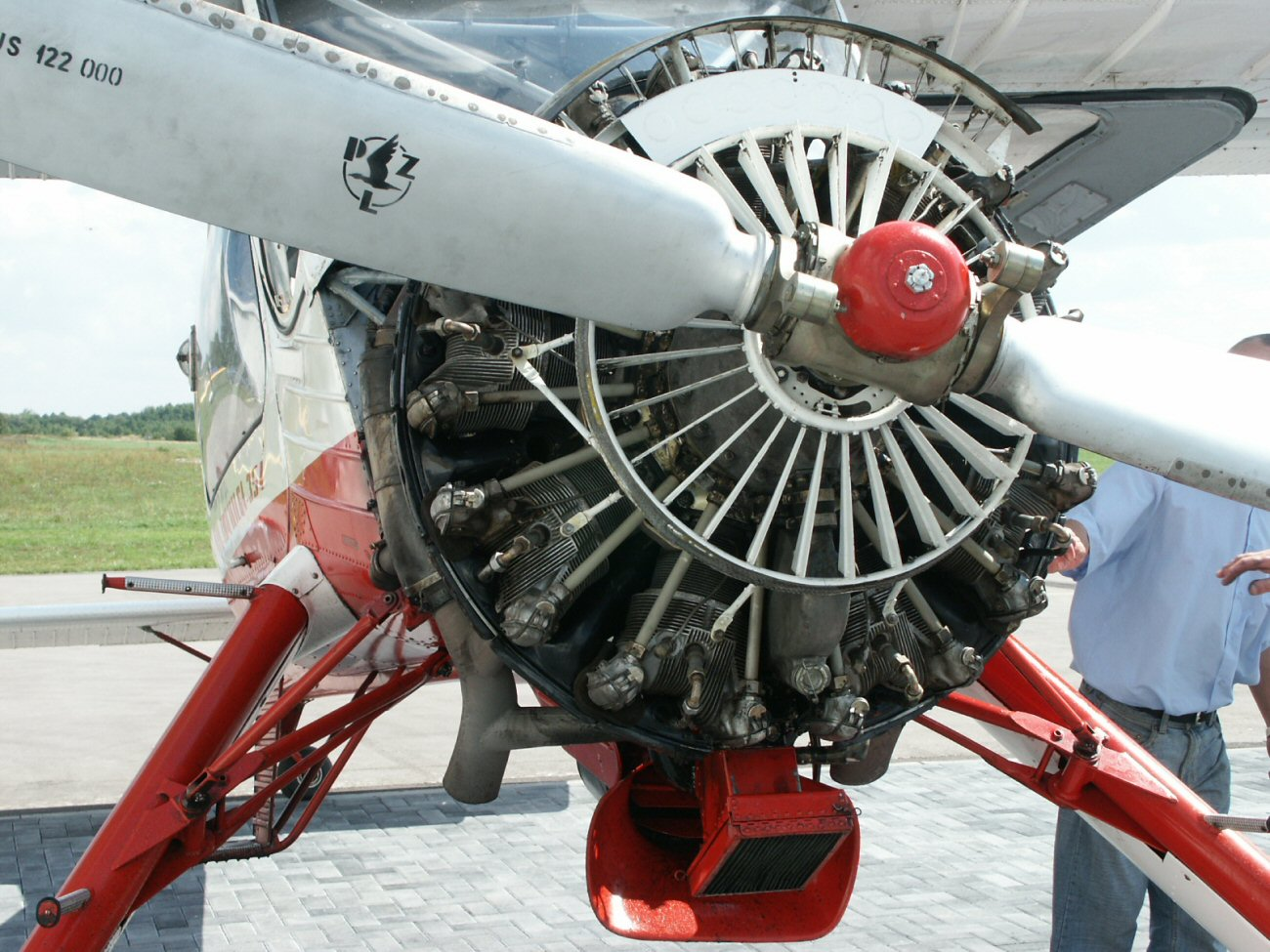 AI-14R engine of PZL-104 Wilga 35A of Aeroklub Kielecki at Kielce-Masłów Airport, Poland